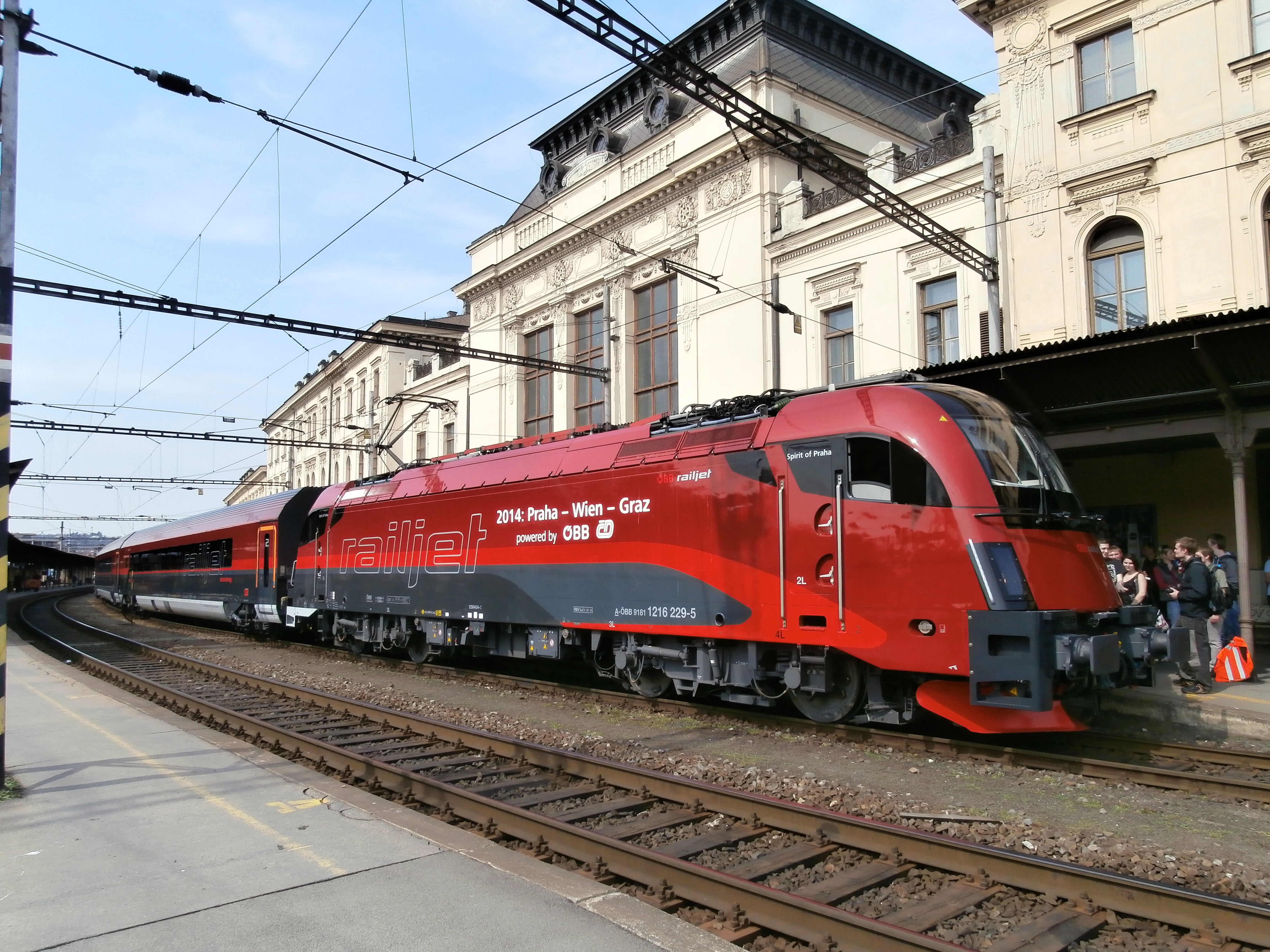 Unit Viaggio Comfort during the stop in Brno